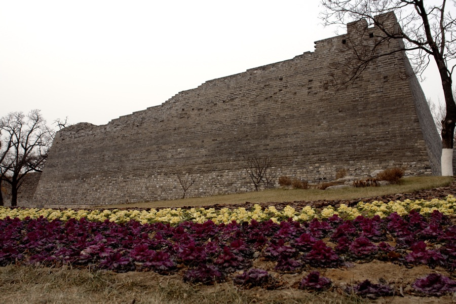 Ruins of the Beijing city wall built during the Ming Dynasty.